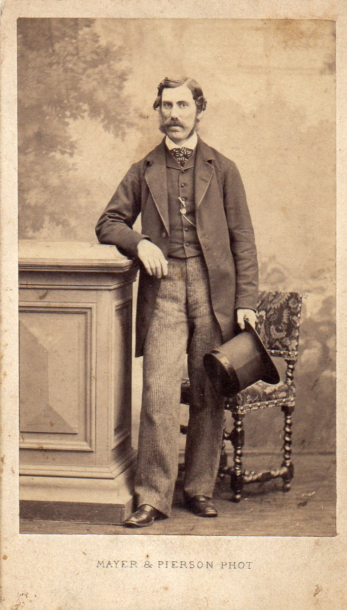 Photograph of Sir Andrew Fairbairn taken in Paris, France circa 1868 by Mayer & Pierson Photography.